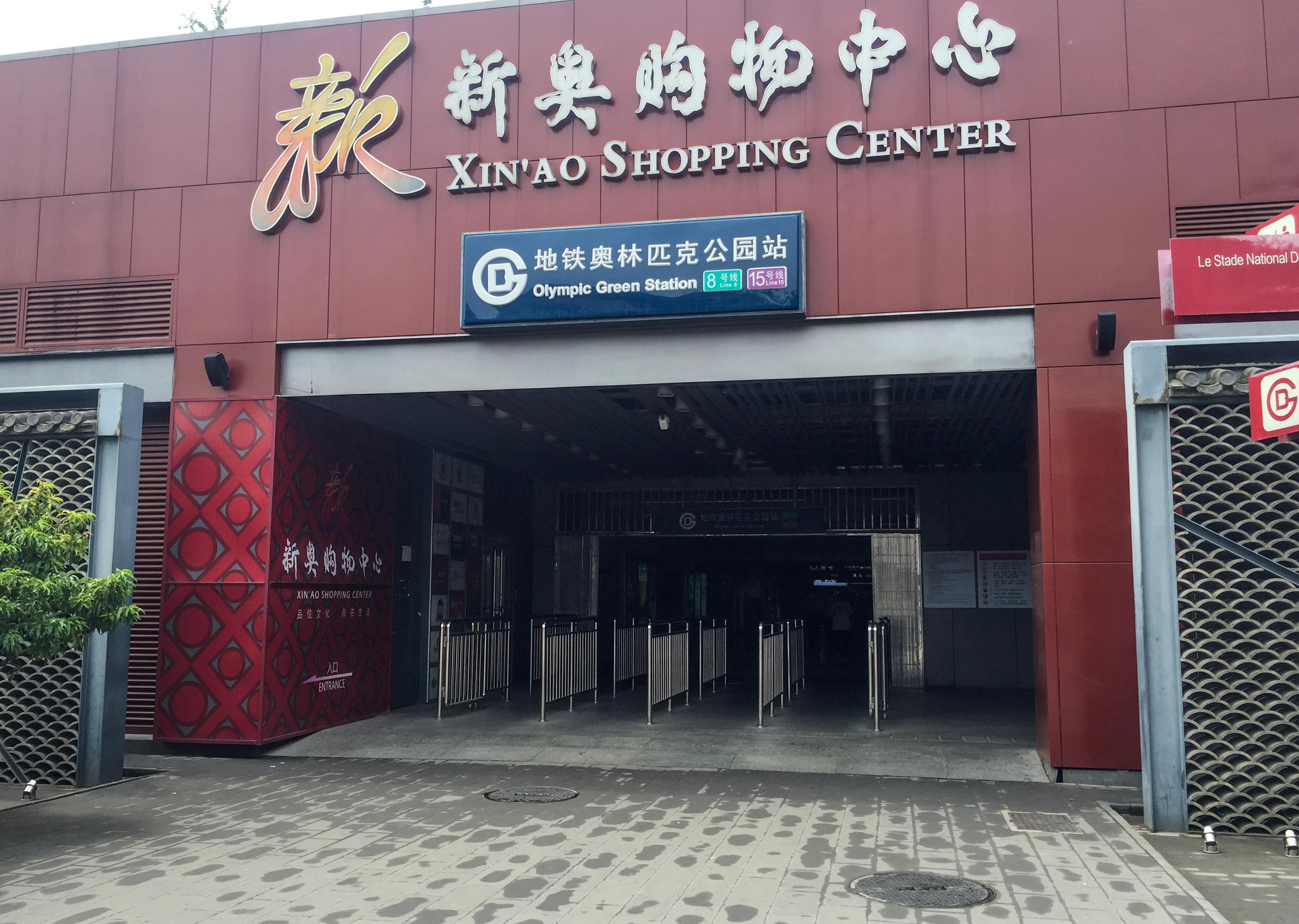 Southeast exit.